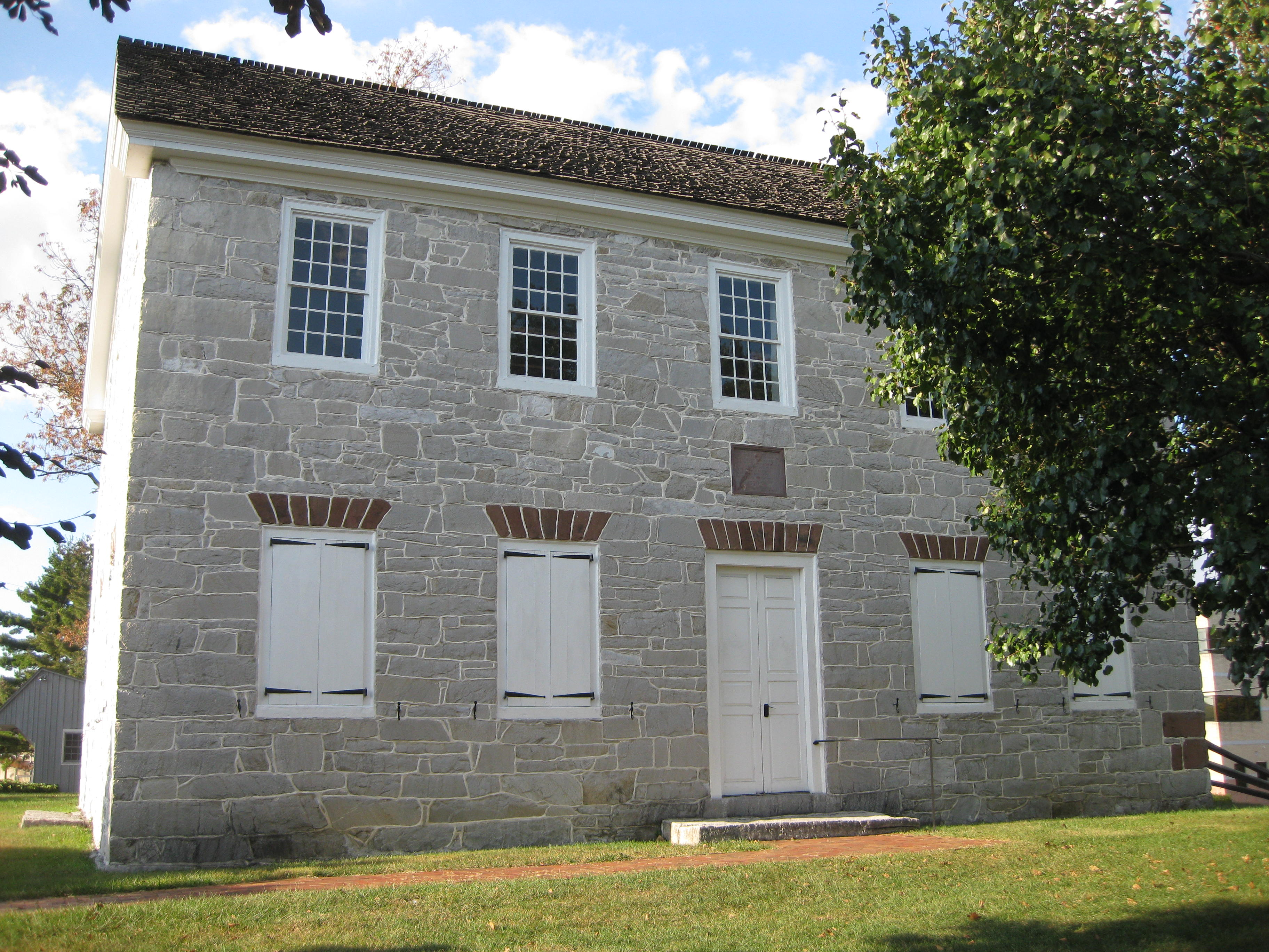 Front of Peach Church, Mechanicsburg, Pennsylvania